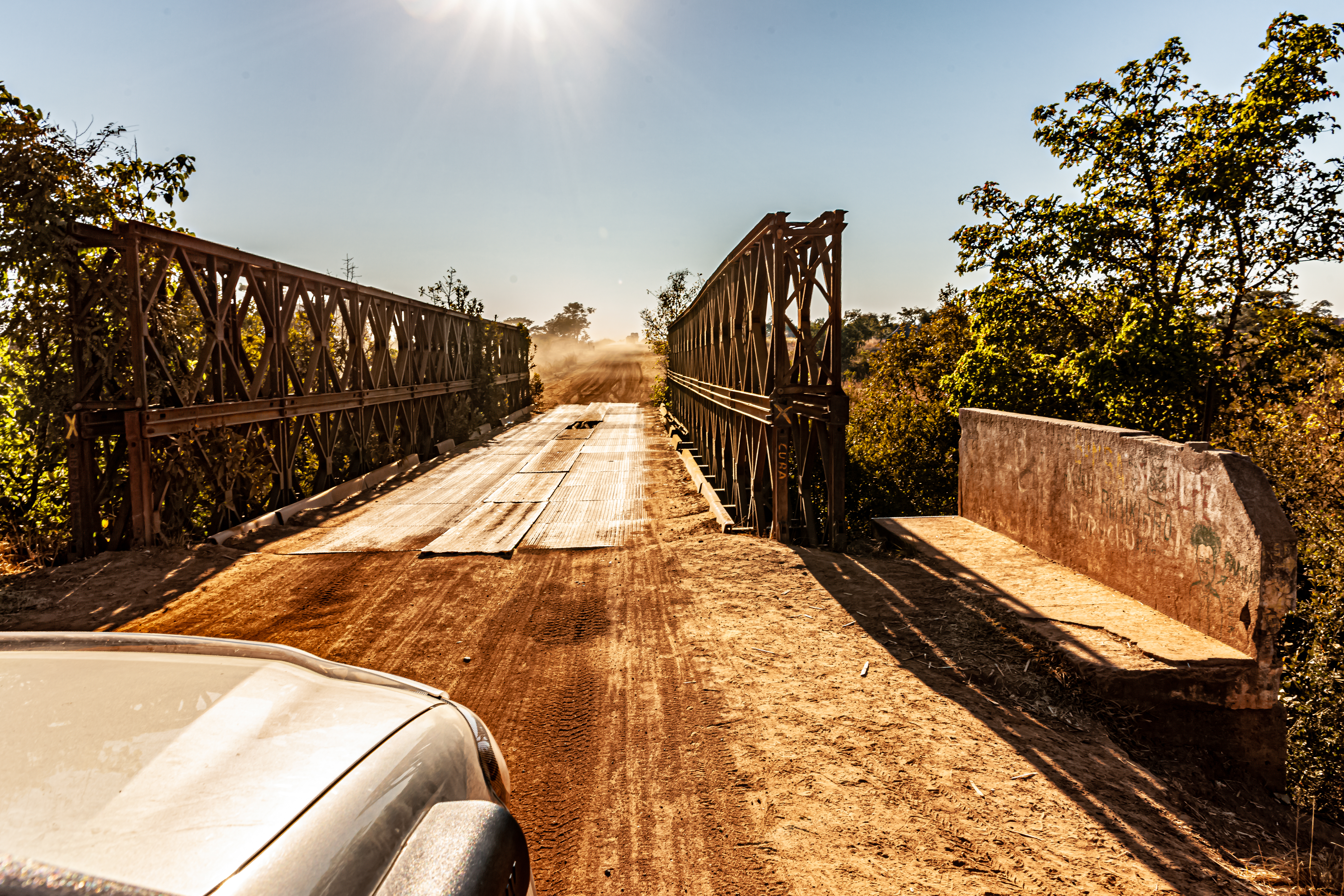 The South African military engineers built this for transport in to Angola during the war This is an image with the theme "Africa on the Move or Transport" from: Angola